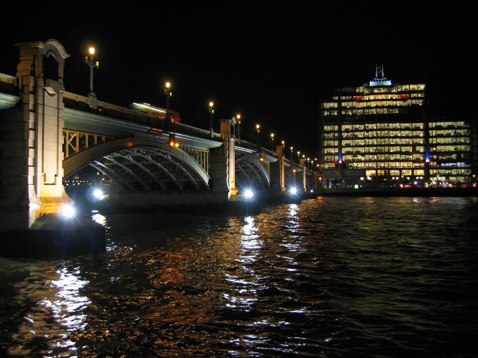 Southwark Bridge, London. I was rather surprised at how much the Thames rose from earlier in the day and how choppy the water was...definitely not good for those prone to motion sickness.